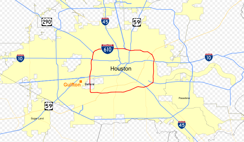 A map of Houston indicating Gulfton